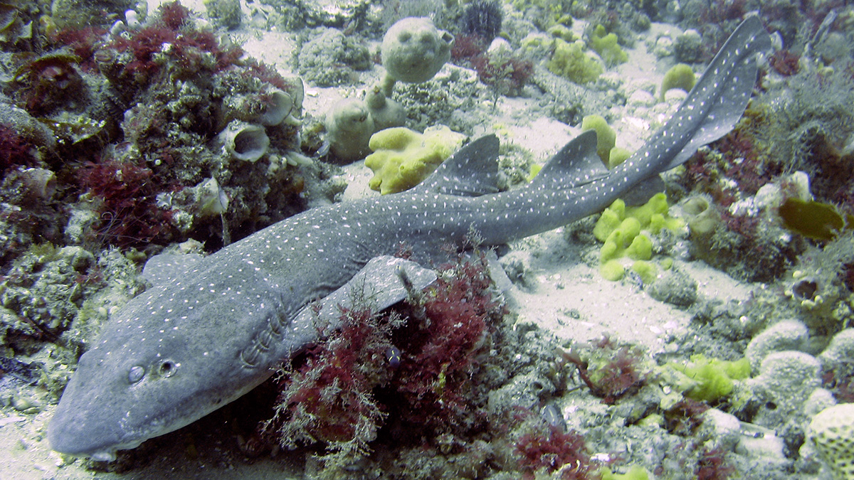 Photo of a Blind Shark (Brachaelurus waddi). Taken by David Breneman, Saturday, 29th of September 2007 at the Sewage Pipe, Nelson Bay, NSW, Australia.